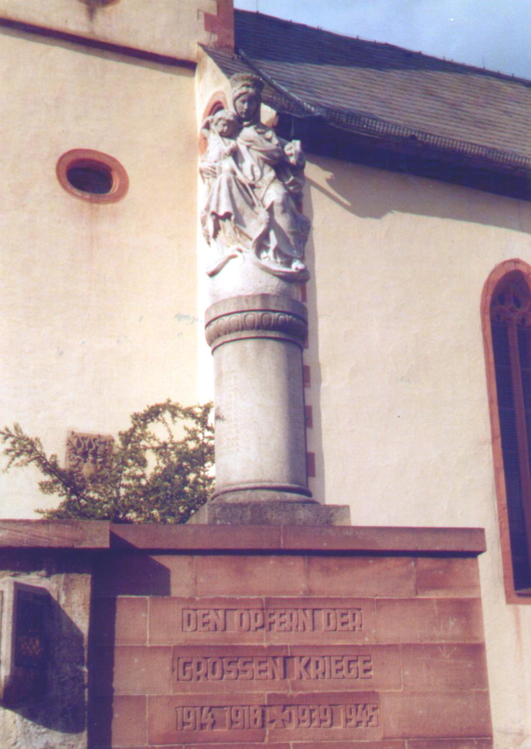 War Memorial in Aschach, a quarter of the German spa town of Bad Bocklet in Lower Franconia (Bavaria), in memory of the victims of World war I and II. It is located in front of the St.Trinitas Church in Aschach.